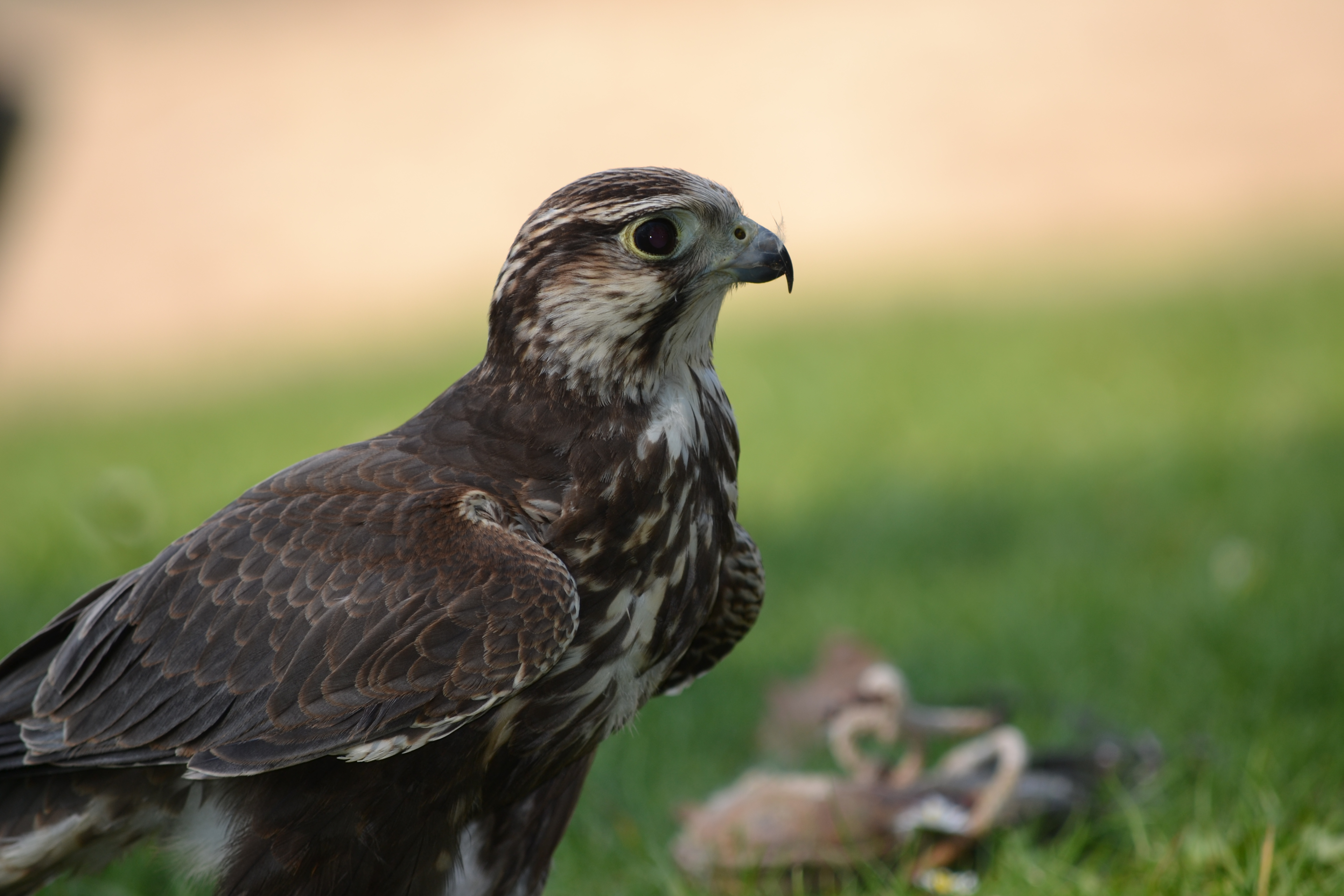 The saker falcon (Falco cherrug) is a large and heavily built falcon that a summer resident in the steppes of Eastern Europe .